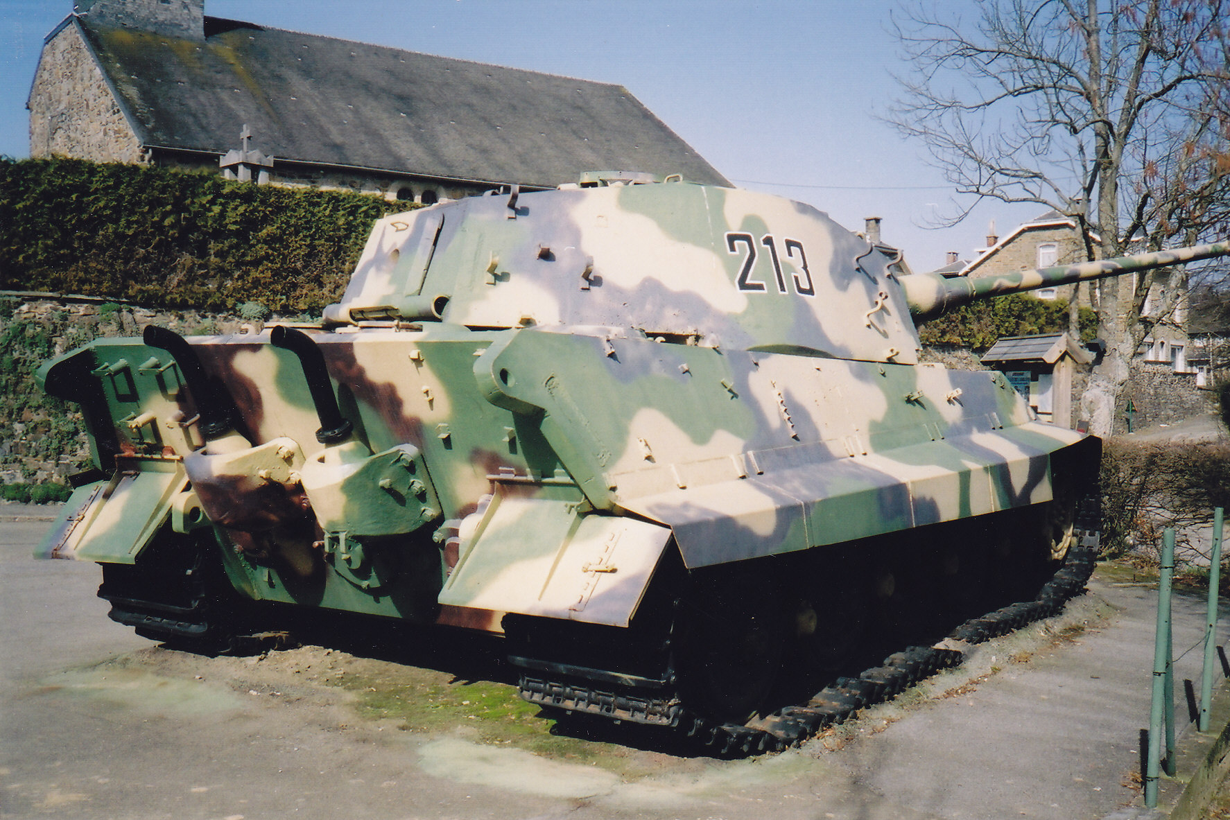 Panzerkampfwagen Tiger Ausf. B, FgstNr 280273 at La Gleize, Belgium, Abteilung 501